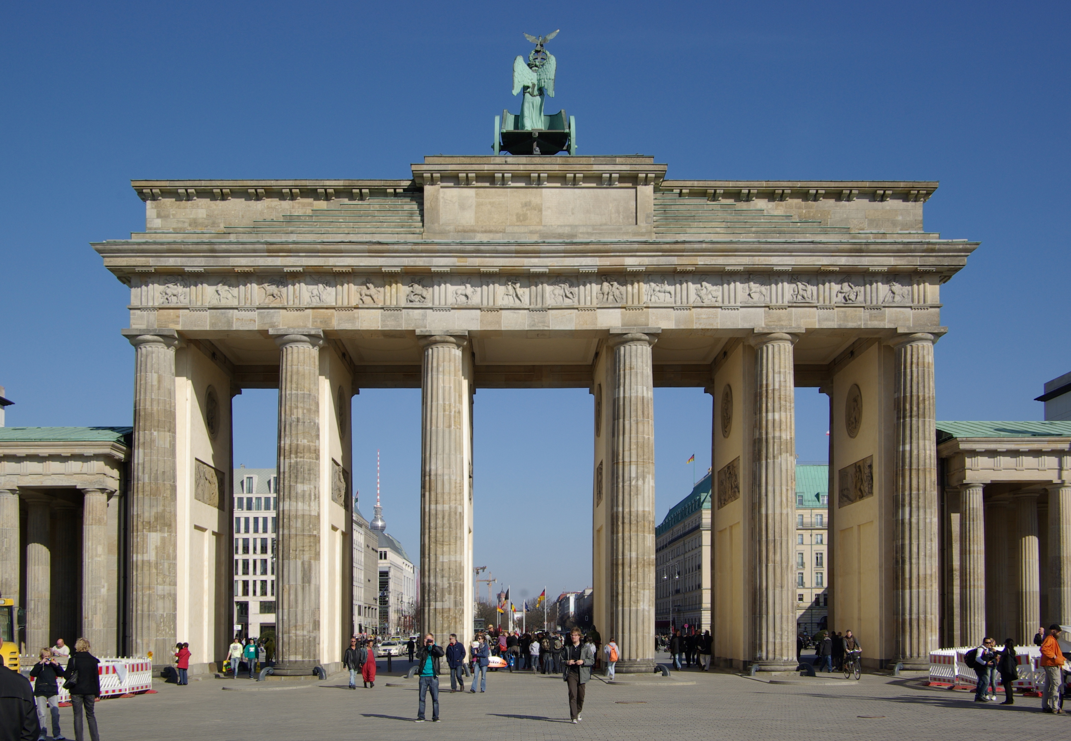 germany, Berlin, Brandenburg gate, westside